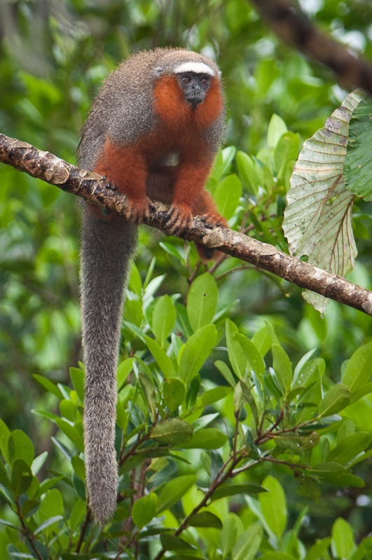 White-tailed titi (Callicebus discolor) in Equador.